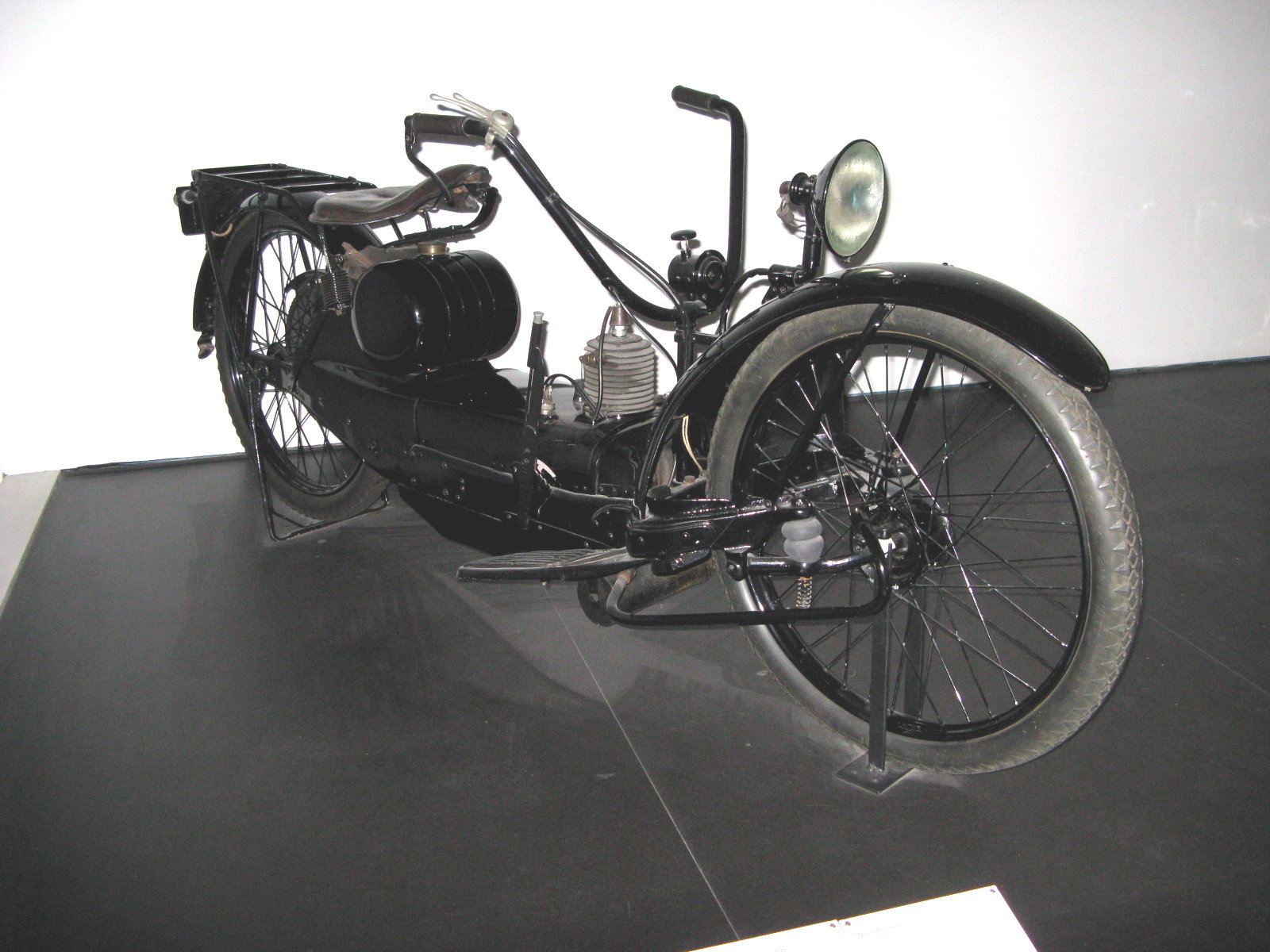 1924 Ner-A-Car motorcycle This is an English Model A of 1921/22, built in Tinsley, Sheffield, by the Sheffield Simplex firm. The front light is not an original fitting - they were fitted with two front lamps, one on each mudguard stay, the left one being gas-powered and the right one electric. Also, the front suspension springs have been replaced by rubber blocks! If you want to see the history, and more photos of these unusual motorcycles, go to